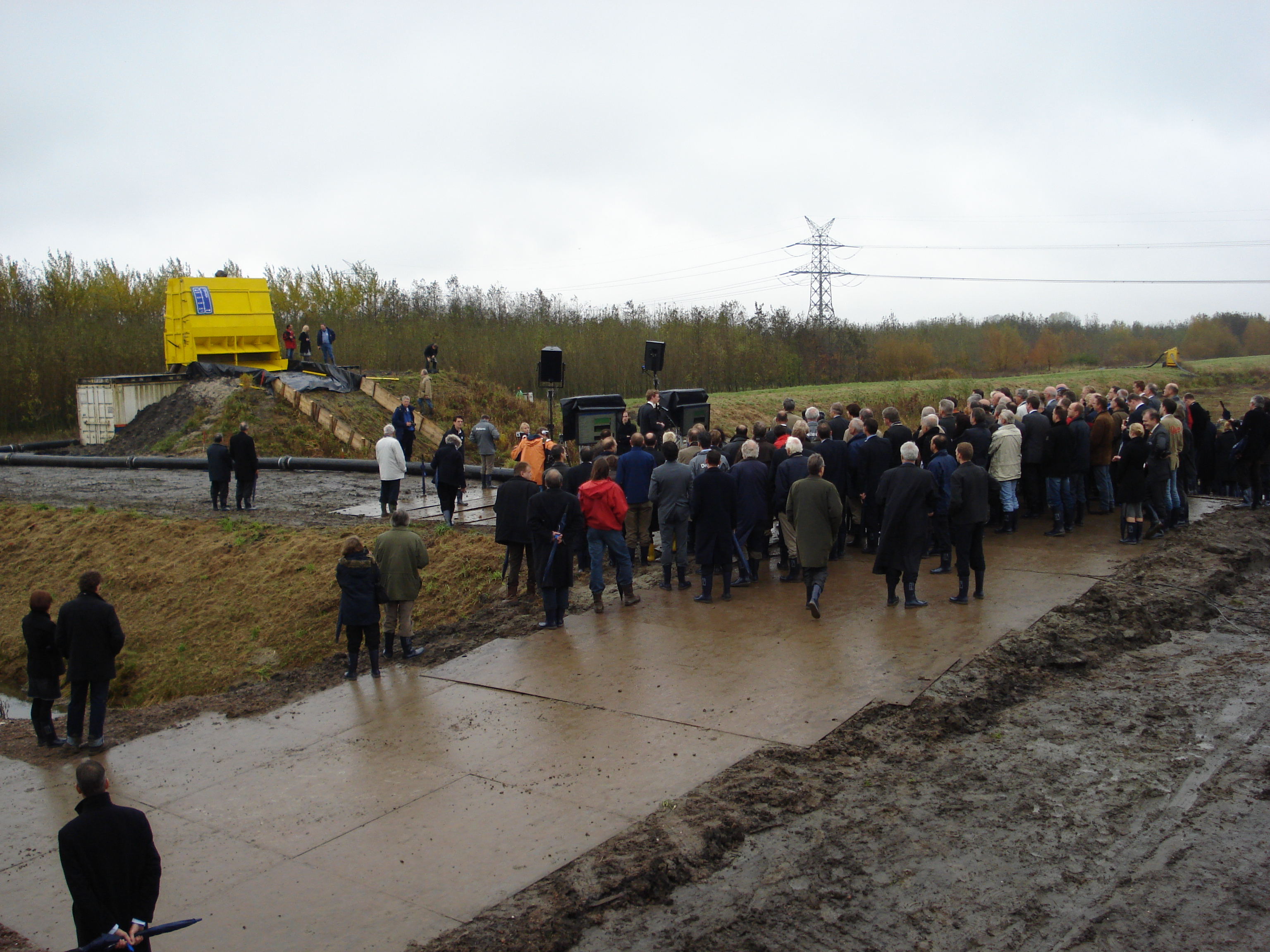 A wave over-topping experiment was the summit of the opening of the IJkdijk on 2 november 2007. In the next years eigthy dikes, equiped with sensors, will be tested (until destruction) .